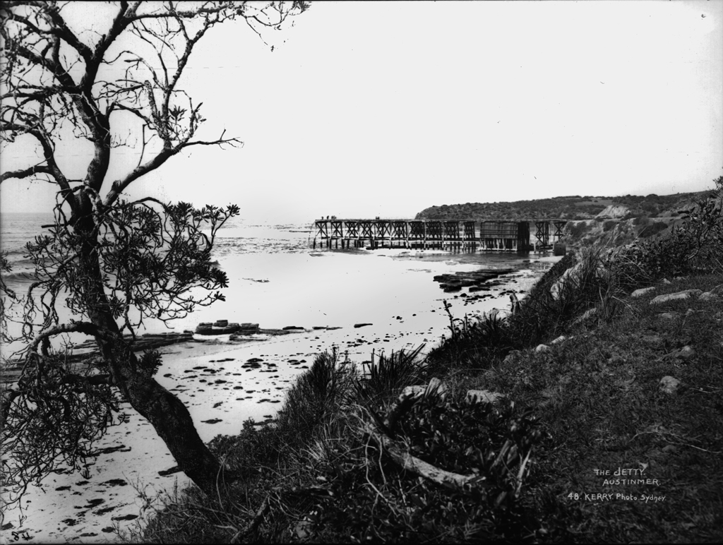 Format: Glass plate negative. Repository: Tyrrell Photographic Collection, Powerhouse Museum Part Of: Powerhouse Museum Collection General information about the Powerhouse Museum Collection is available at Persistent URL: Acquisition credit line: Gift of Australian Consolidated Press under the Taxation Incentives for the Arts Scheme, 1985